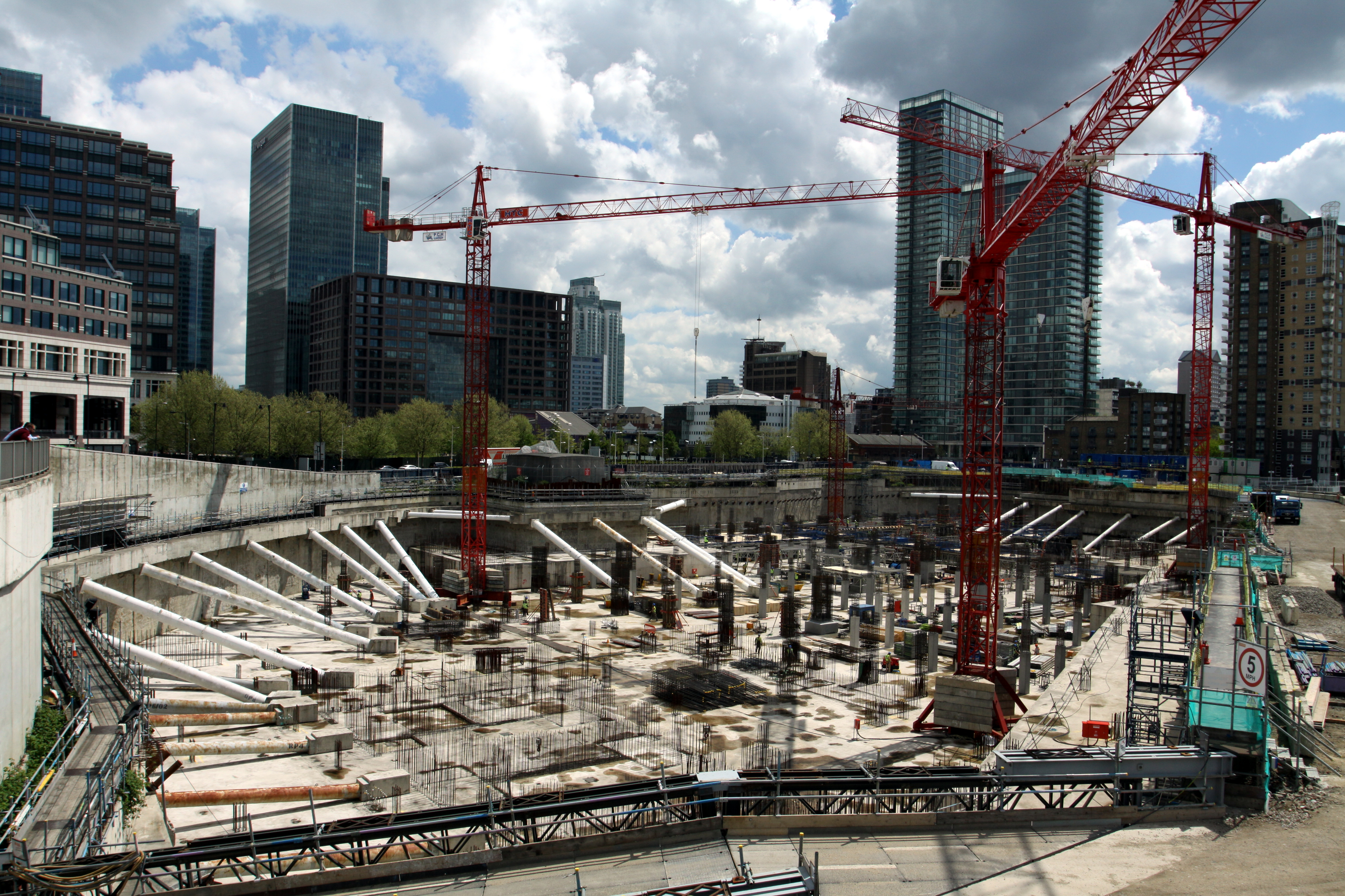 Construction of skyscraper Riverside South (Canary Wharf) in the London Borough of Tower Hamlets, London, England, Great Britain The making of this file was supported by Wikimedia UK.